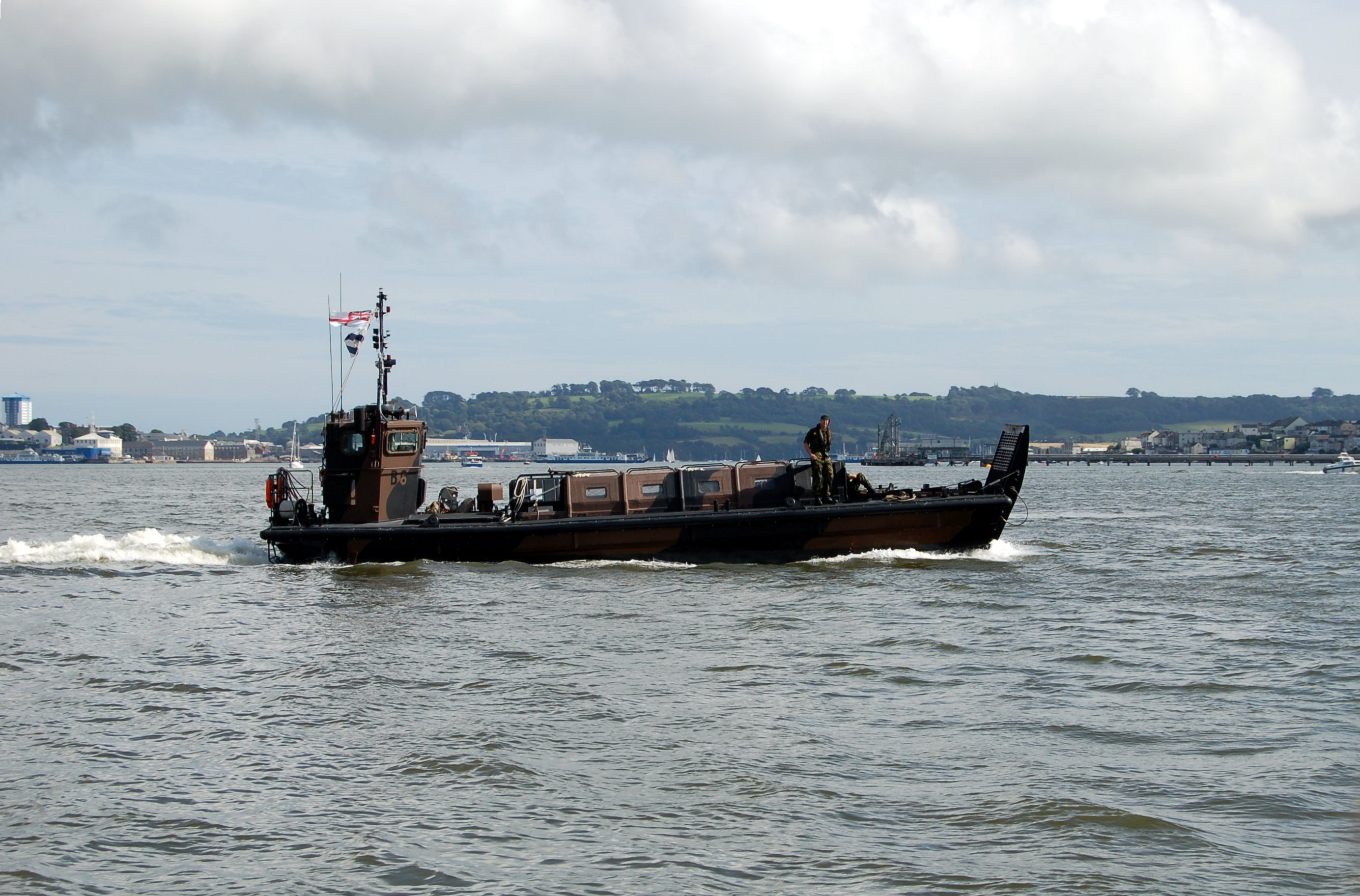 A LCVP from the HMS Bulwark crossing the River Tamar.